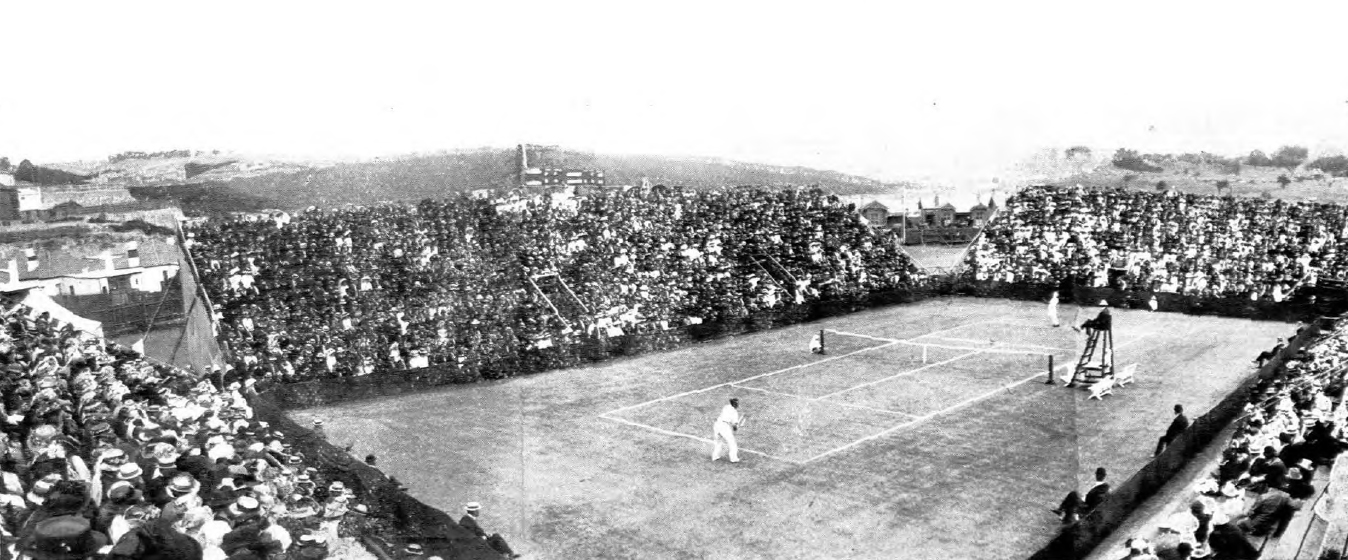 1909 Davis Cup tennis competition